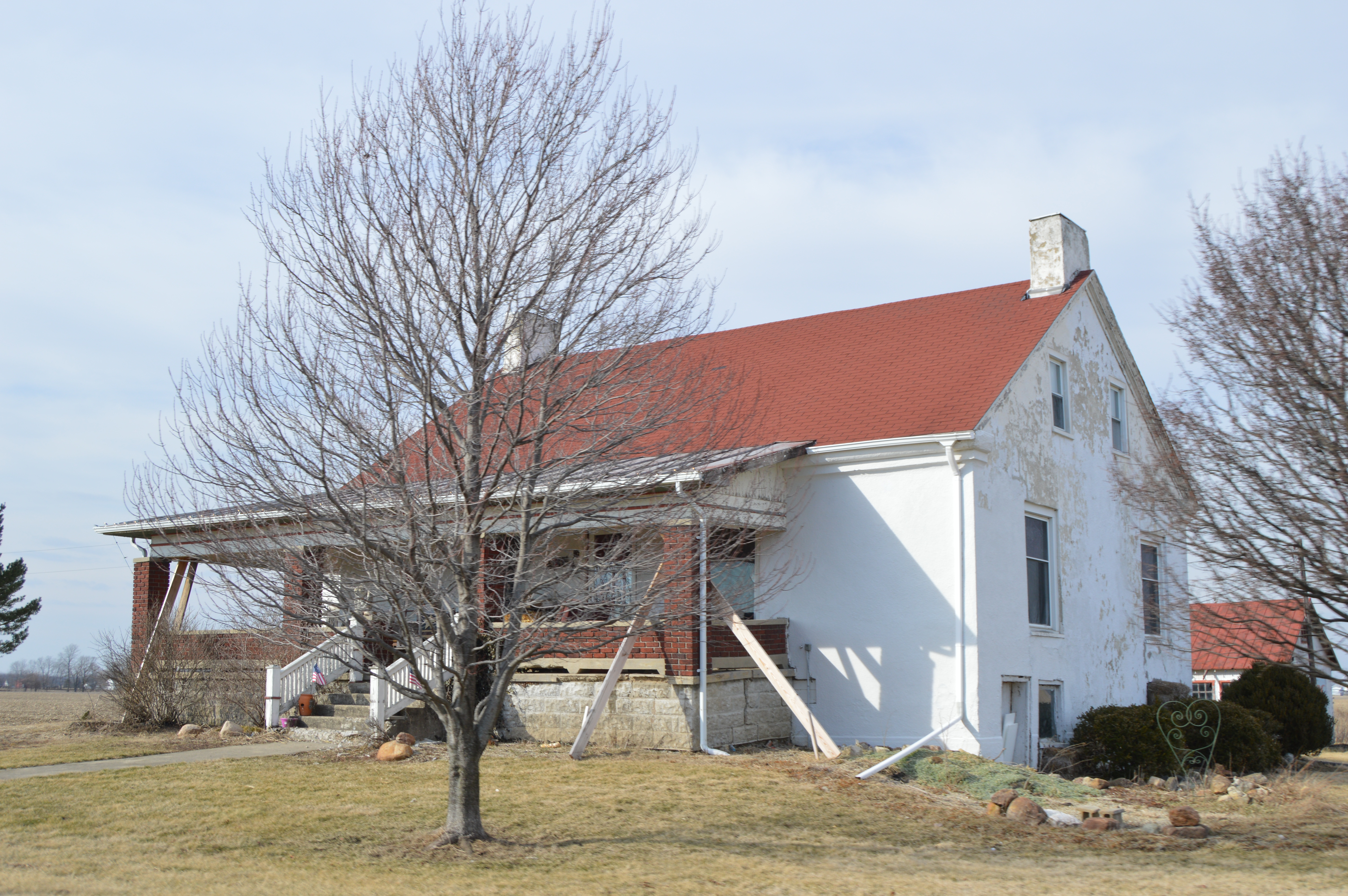 Front and eastern end of an early nineteenth-century farmhouse located on Urbana Woodstock Pike just east of Woodstock in Rush Township, Champaign County, Ohio, United States.